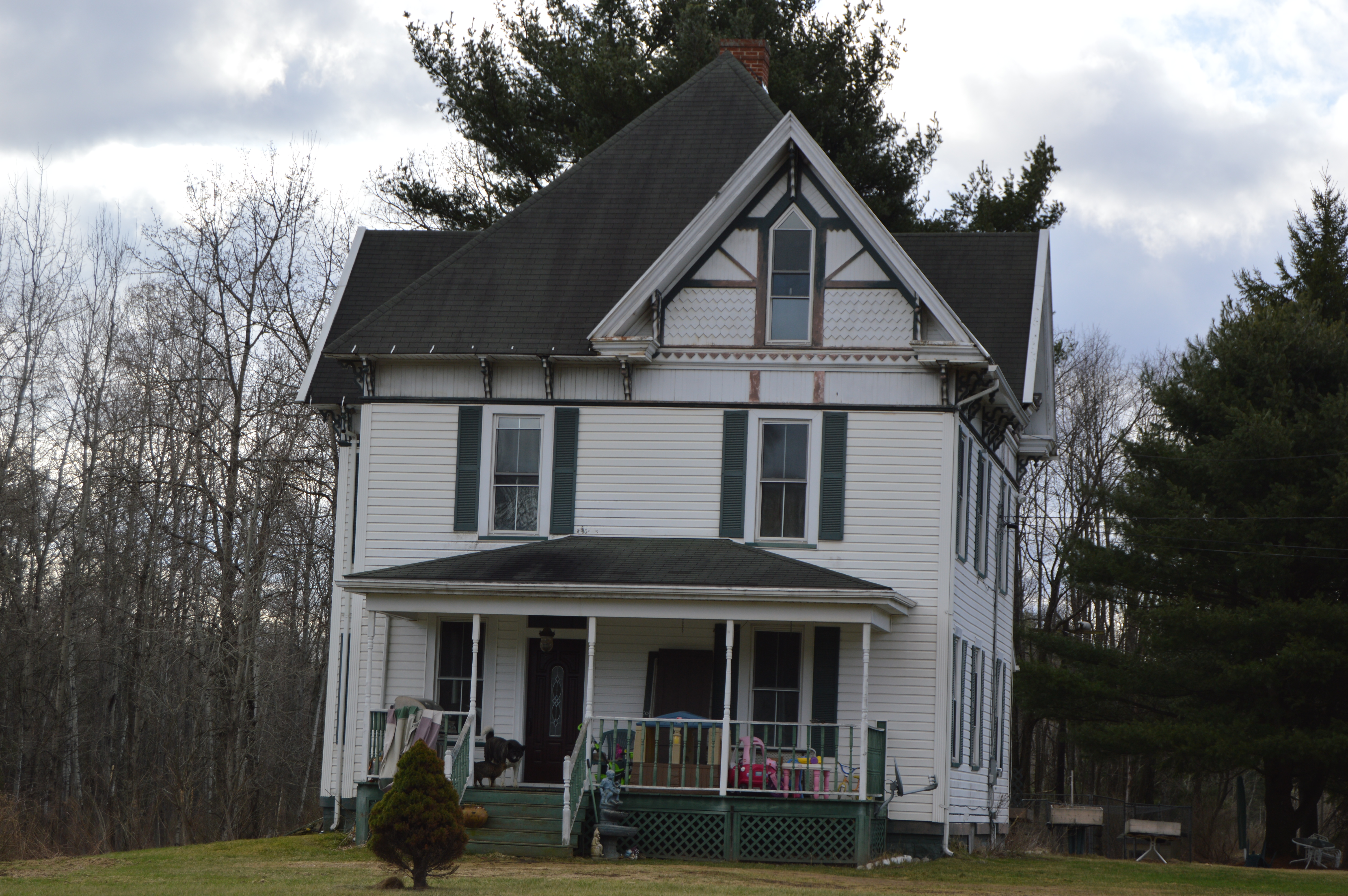 Front of the Redferd Segers House, located along U.S. Route 219 at Crenshaw in Snyder Township, Jefferson County, Pennsylvania, United States. Built in 1870, it is listed on the National Register of Historic Places.